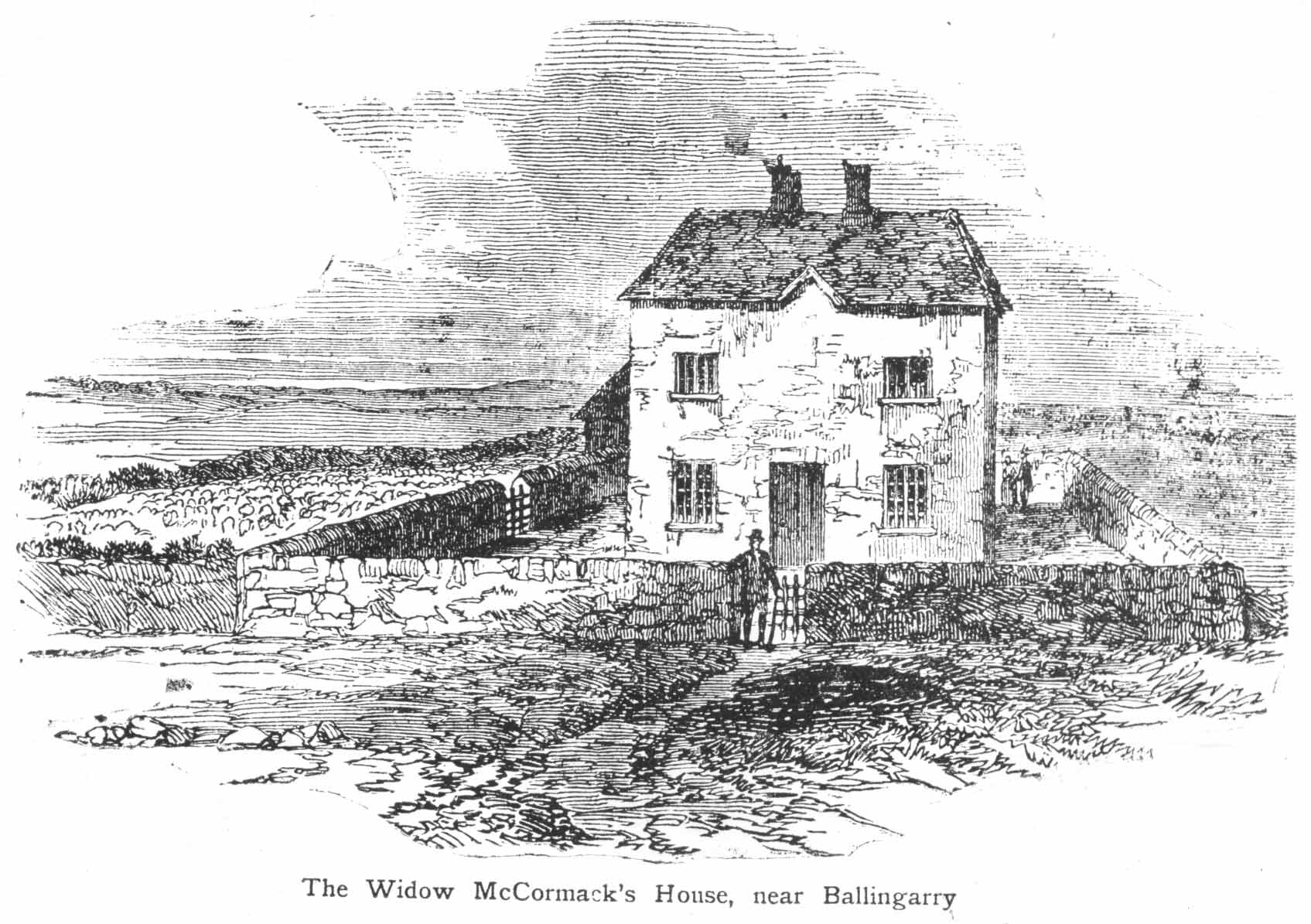 Image sourced Michael Doheny’s The Felon’s Track first published 1849